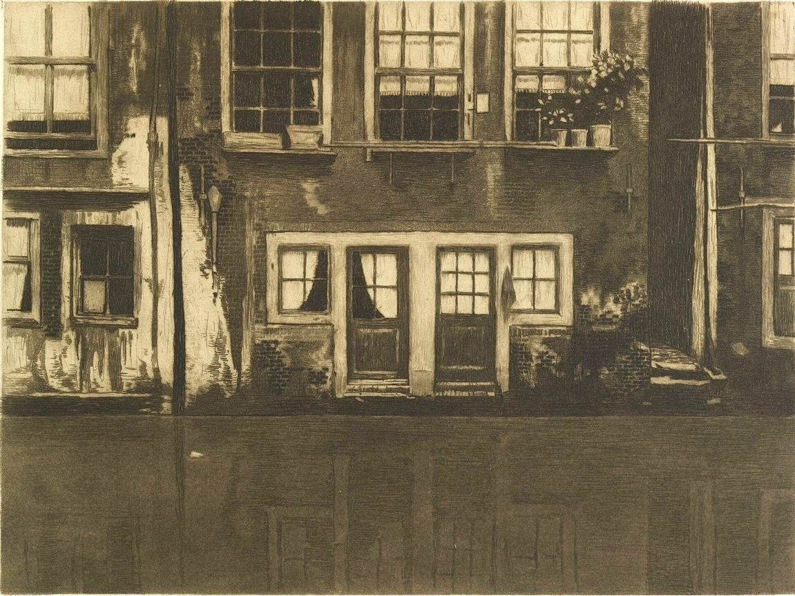 Oudezijds Achterburgwal, twee deuren in het midden (ets, gespiegeld)